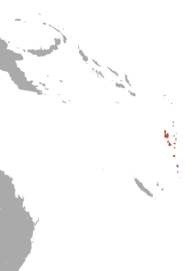 Vanuatu Flying Fox (Pteropus anetianus) range